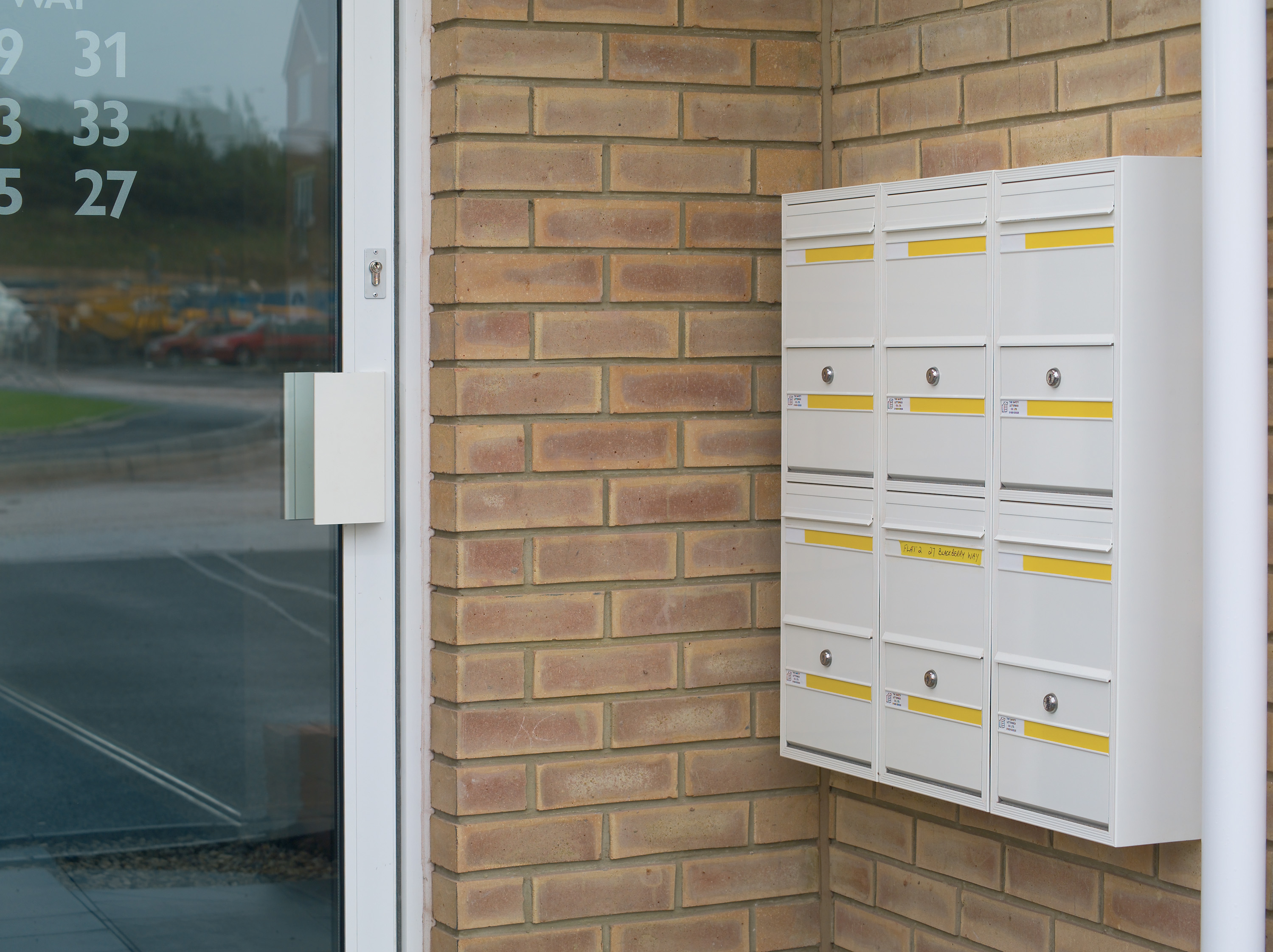 A small bank of wall mounted post boxes used in the United Kingdom outside of a property entrance door.